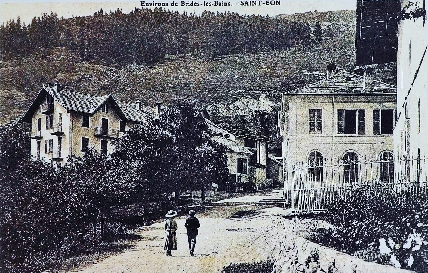 Picture of the village of Saint-Bon (Savoie, France), in 1911.